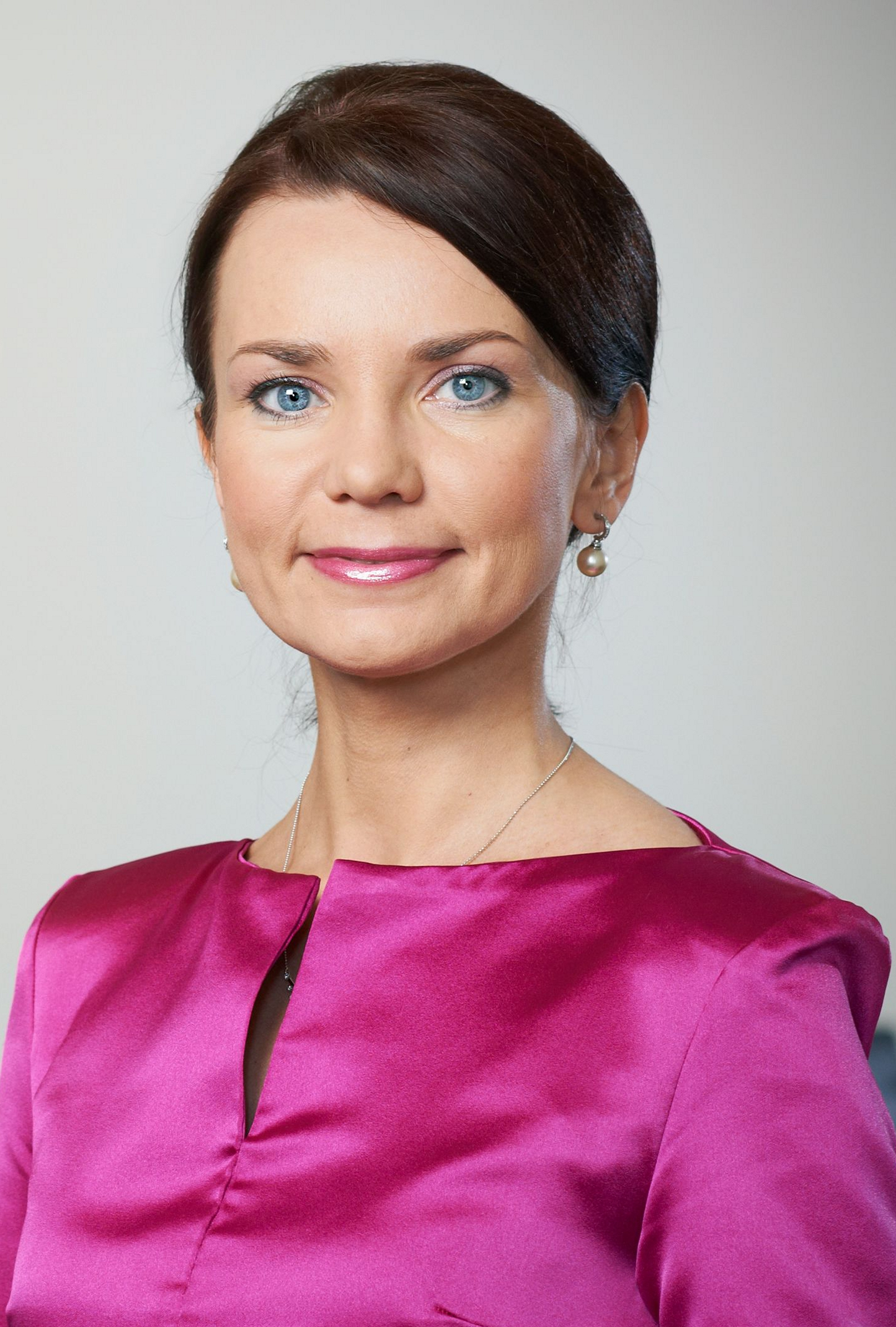 Keit Pentus